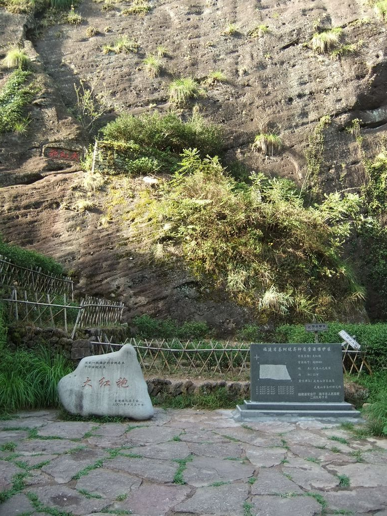 大红袍 - Dahongpao(Big Red Robe Tea) on the Cliff - 2010.09